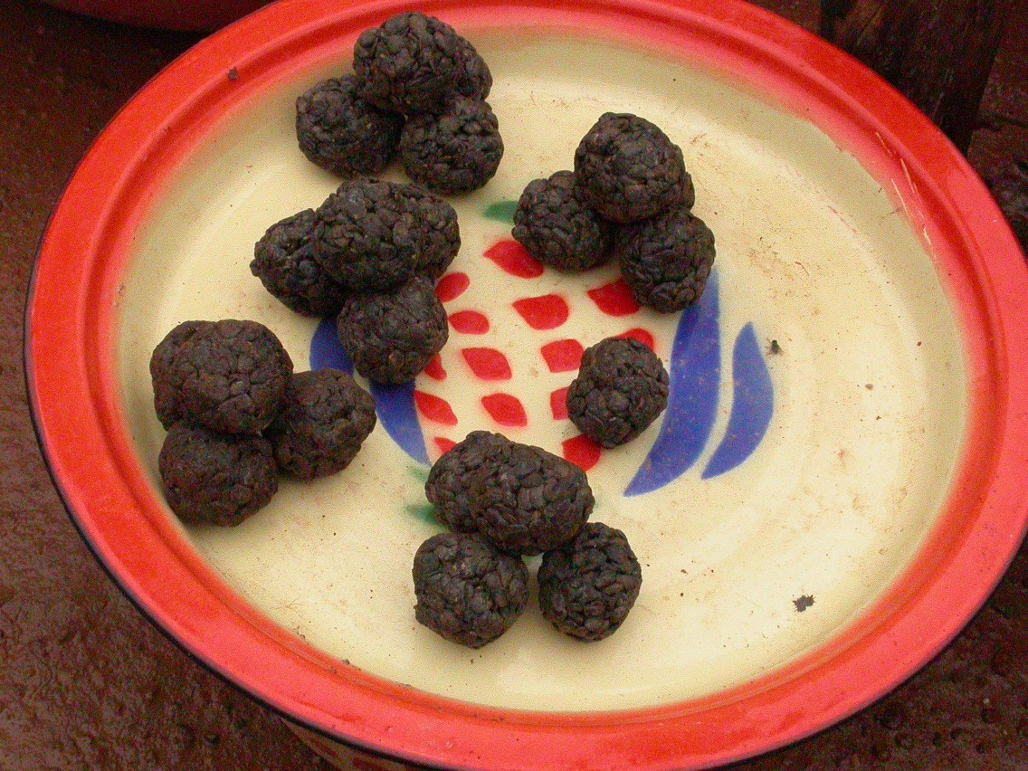 Soumbala (Sunbala), a West African spice made of the seeds of the Néré, Parkia biglobosa. Foto taken at the market of Léo, Burkina Faso.